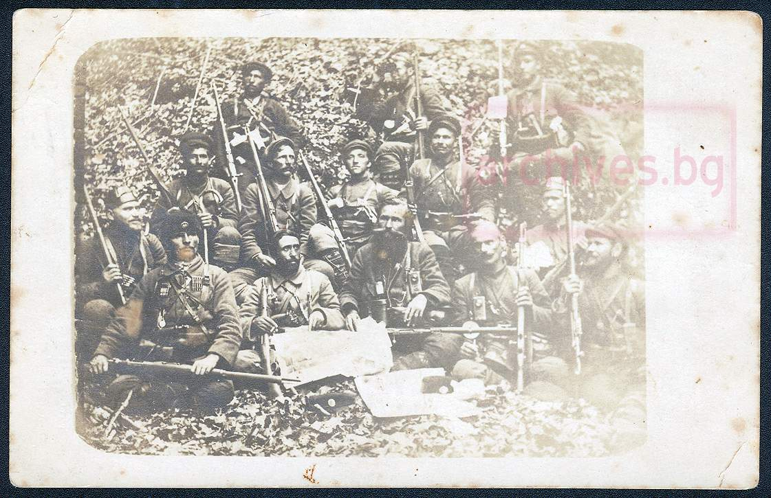 Cheta of IMRO Kratovo voevoda Mite Opilski